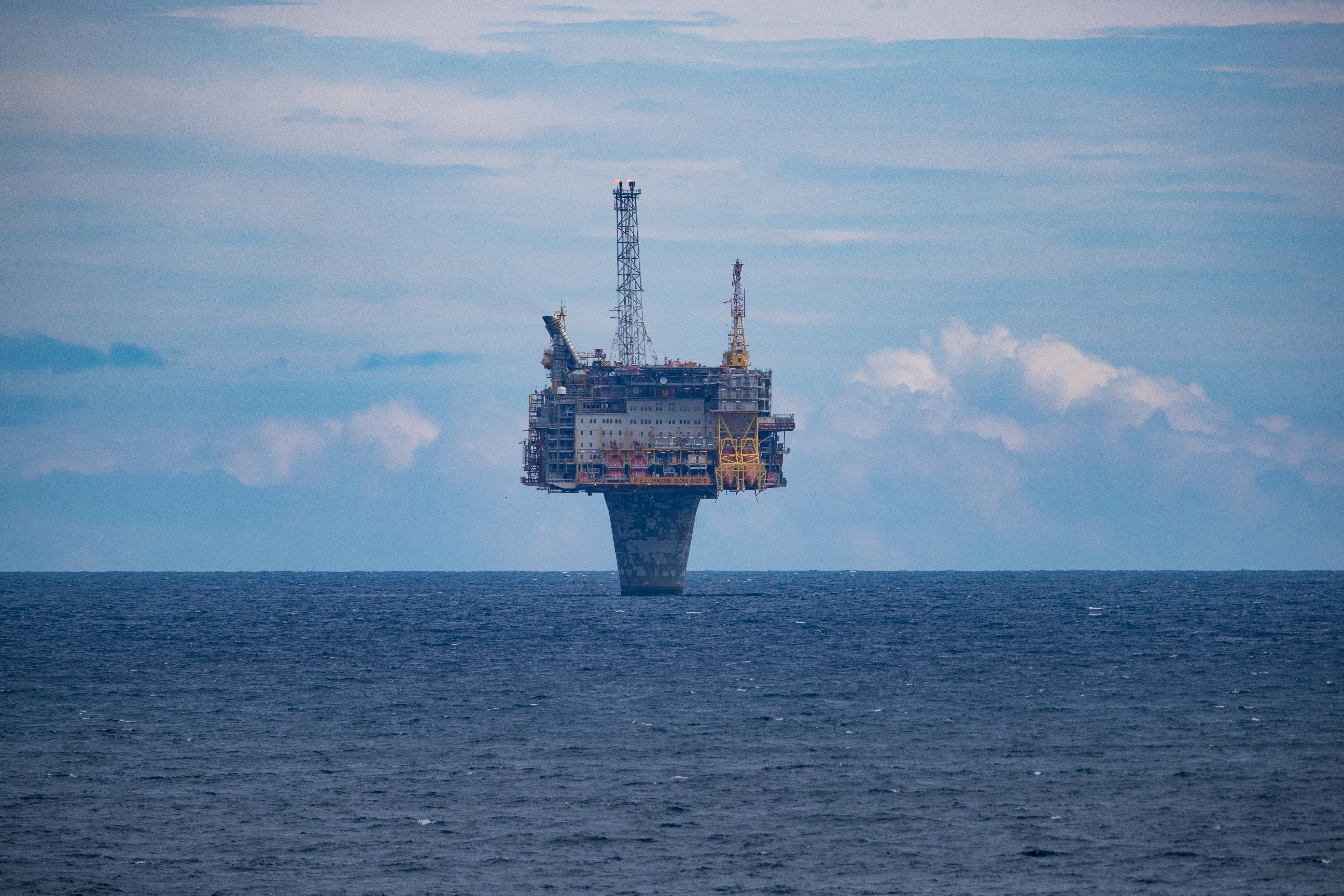 Shell Draugen Blokk 6407/9